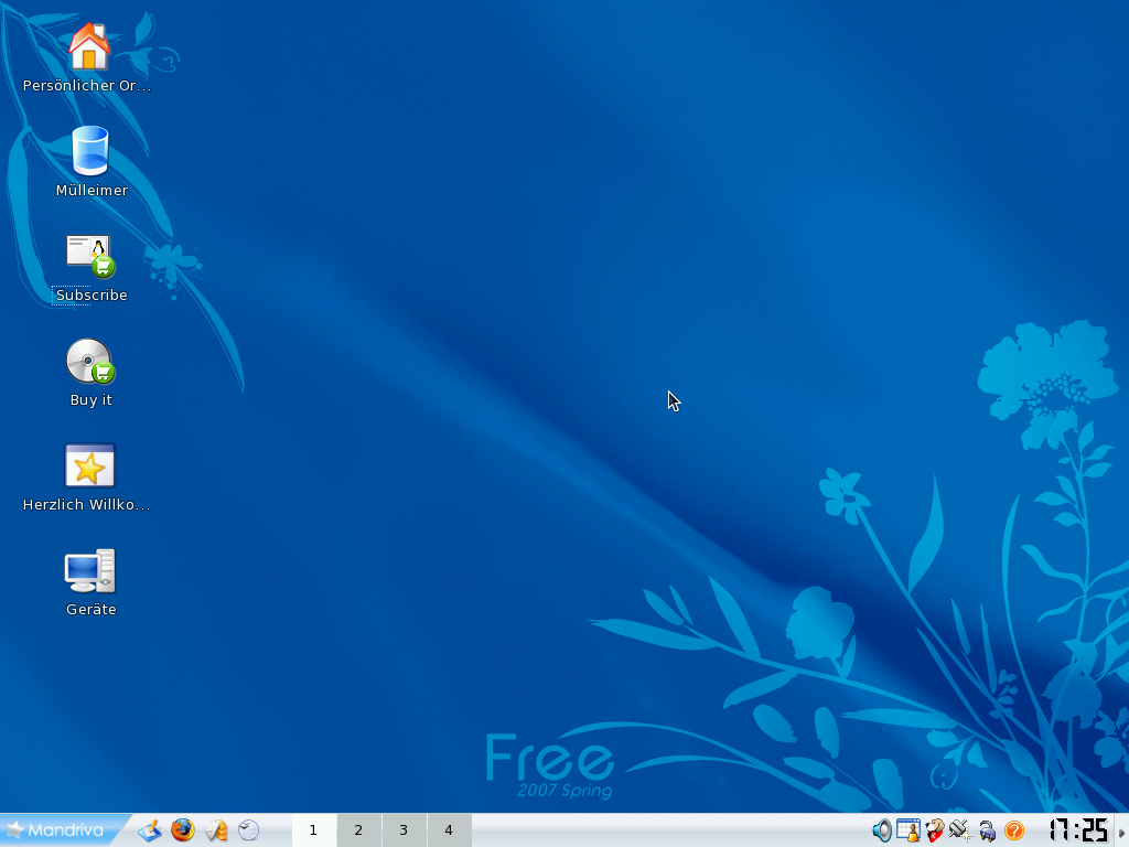 Screenshot of freshly installed Mandriva Linux 2007 "Spring"